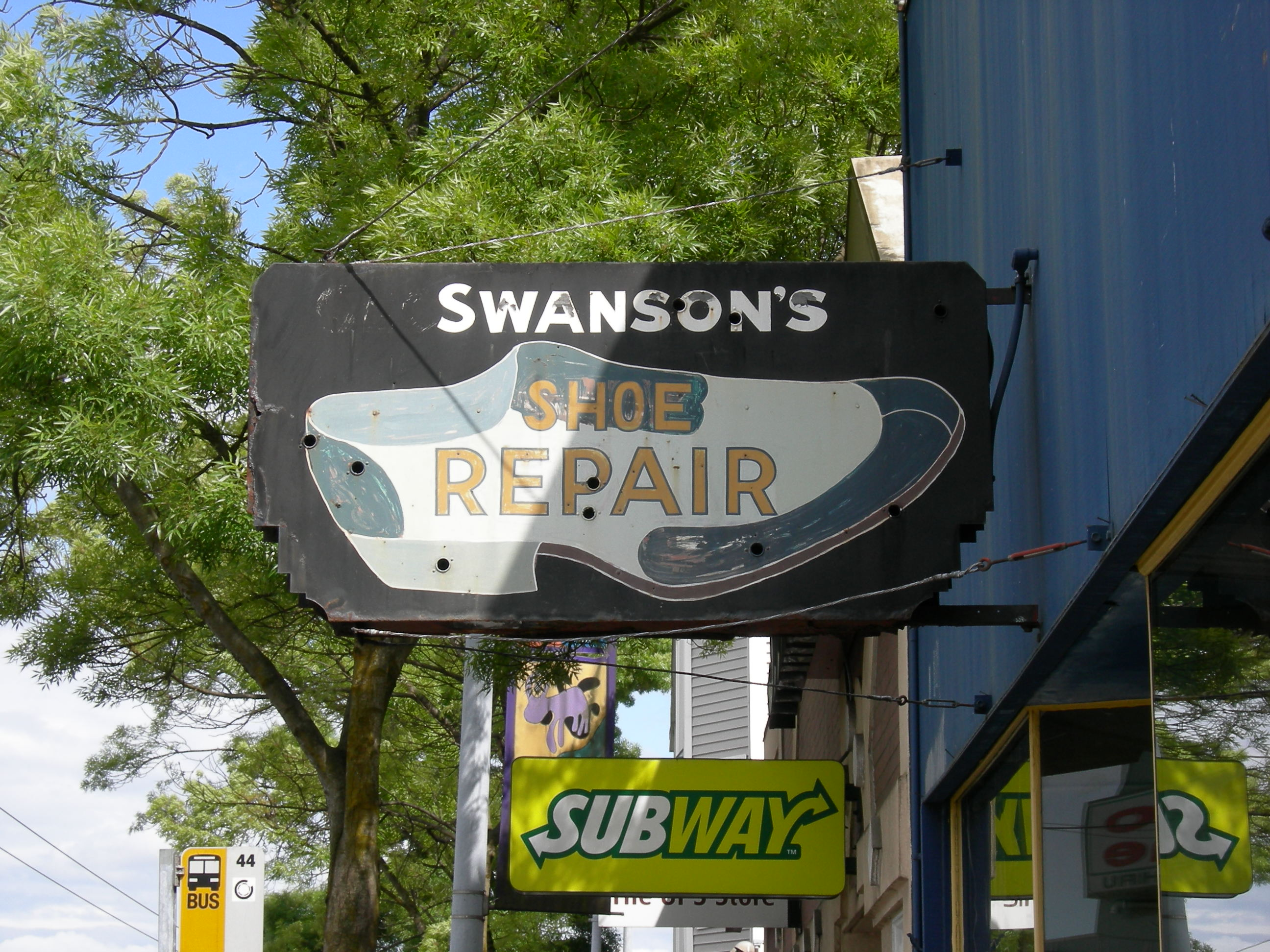 Swanson Shoe Repair (founded 1928), Wallingford neighborhood, Seattle, Washington. Main shop sign.